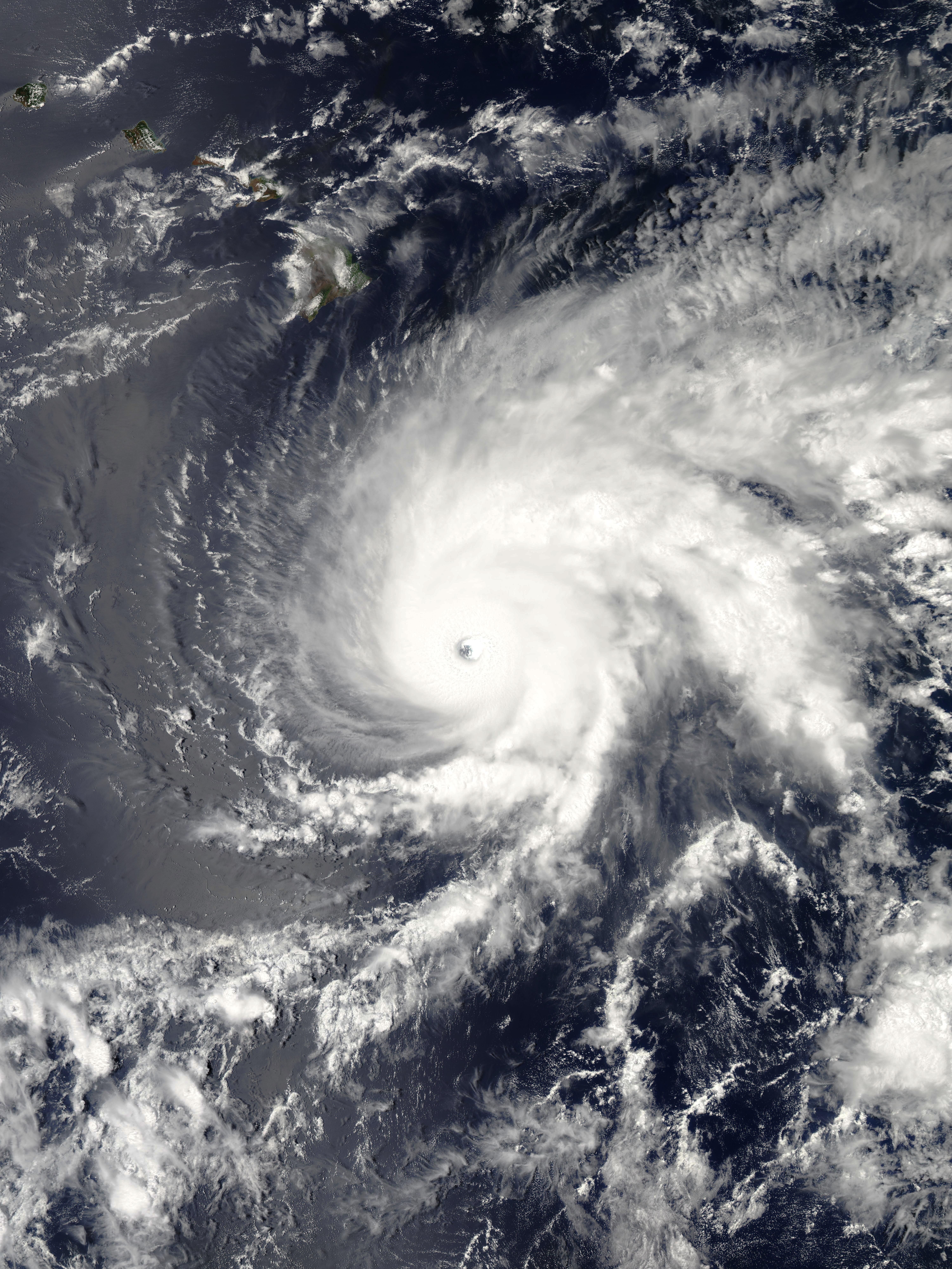 Hurricane Lane as a 160 mph Category 5 hurricane on August 21, 2018.